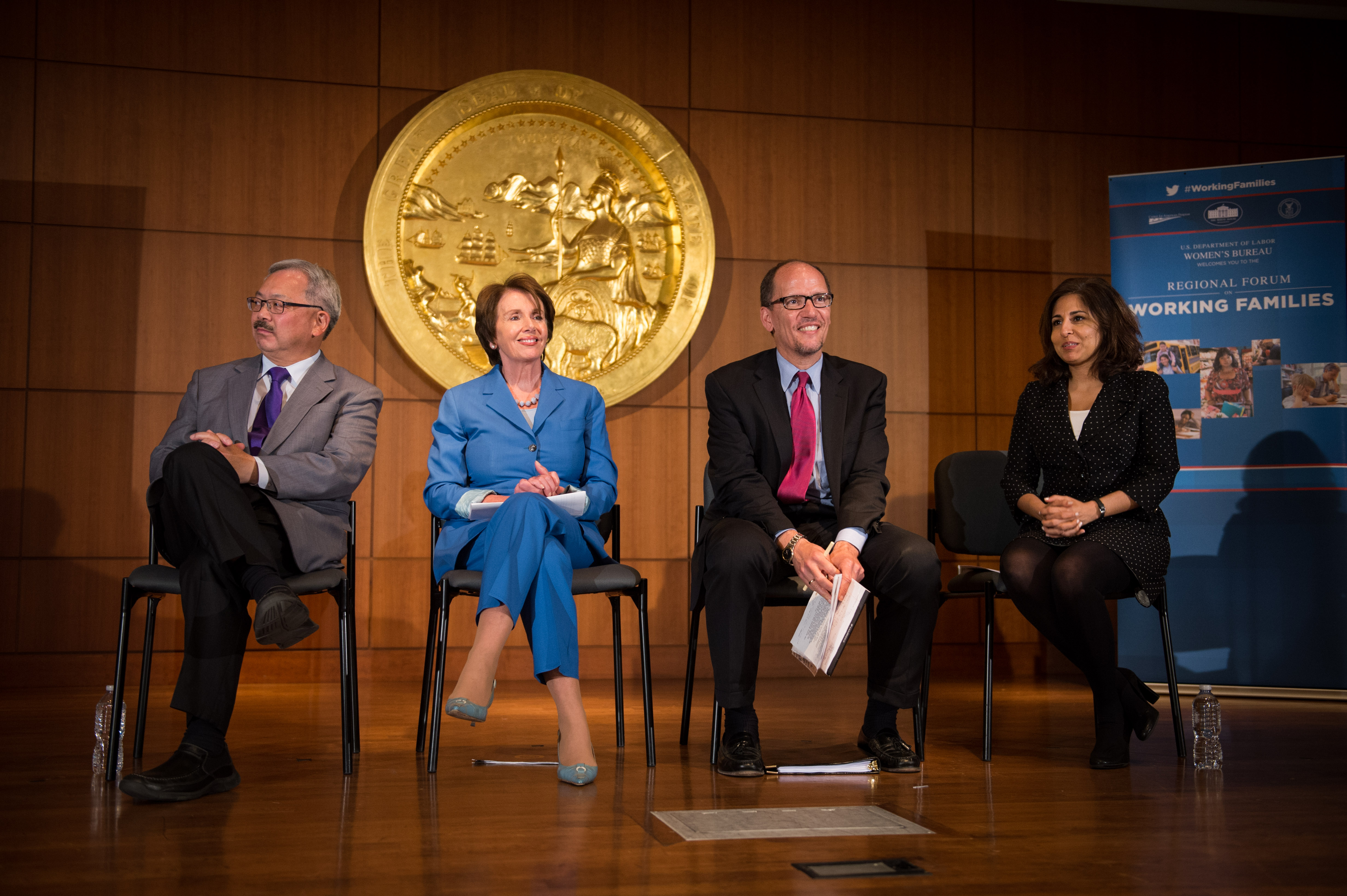 May 27, 2014 - San Francisco, California, United States: From left to right, San Francisco Mayor Ed Lee, Democratic Leader, U.S. House of Representatives, Nancy Pelosi, Secretary of Labor Thomas Perez, and President, Center for American Progress, Neera Tanden at The Department of Labor Regional Forum in San Francisco as part of the White House Summit on Working Families in the Milton Marks Auditorium, San Francisco, California.